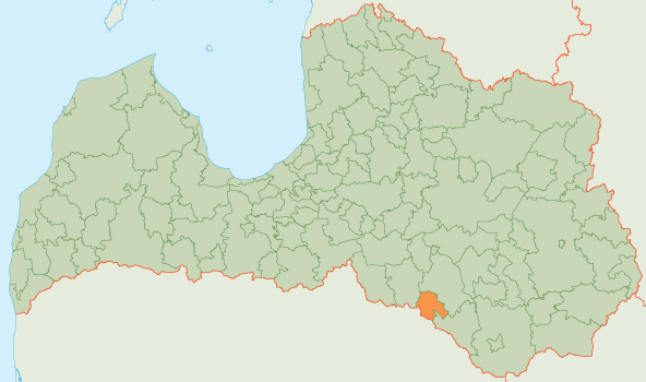 Aknīste map